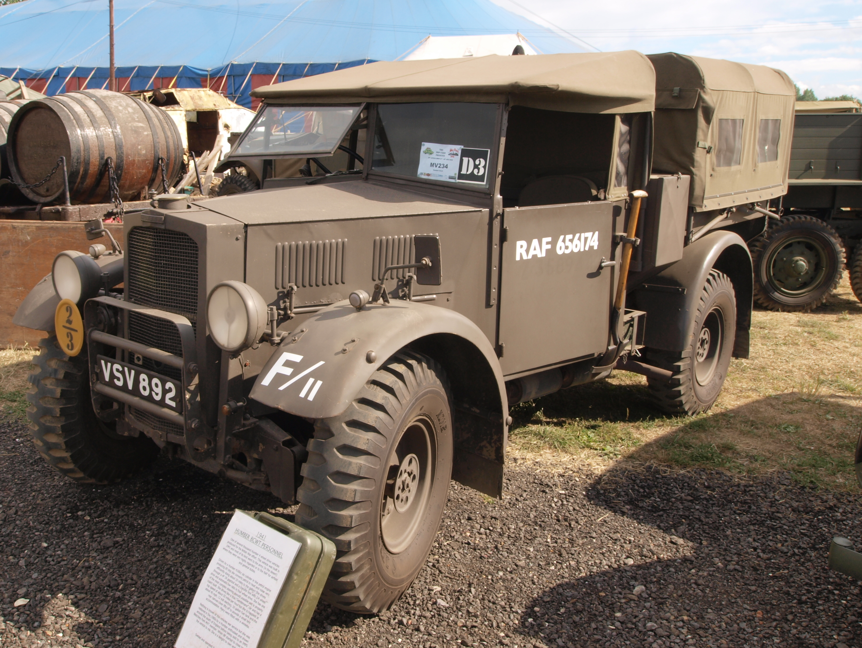 Humber 8cwt (1941) owned by Tobin Jones. RAF 656174.